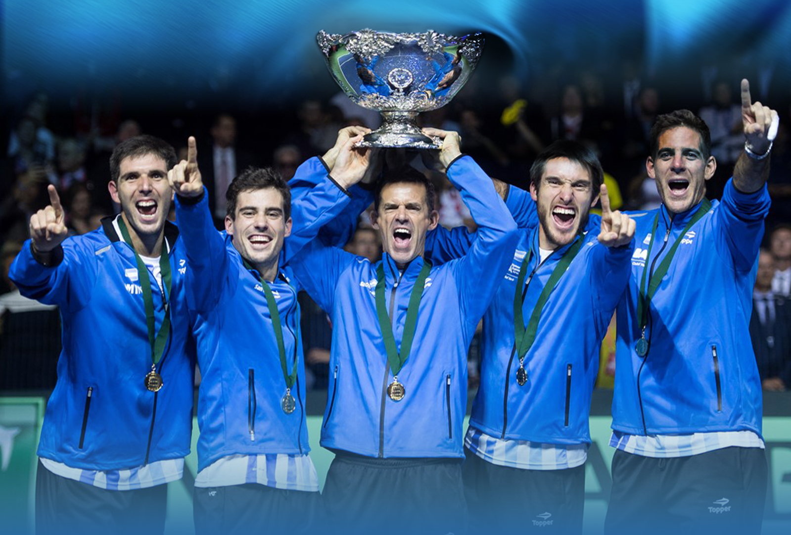 Cropped image of Davis Cup 2016 Winners from theatrical release poster of the Documentary film "Red Clay Heroes", directed by Milos Twilight, produced by Twilight Films.